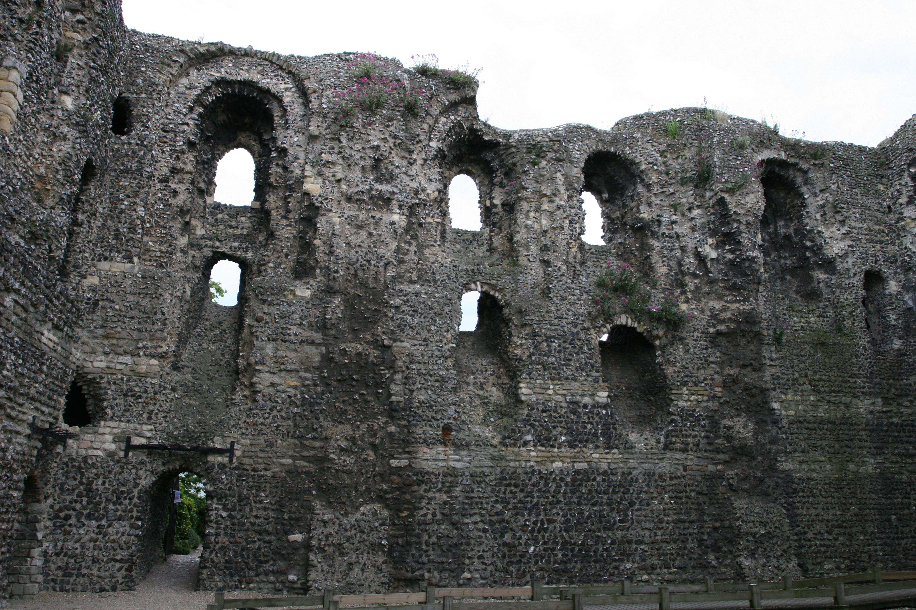 The interior of the ruins of Canterbury Castle